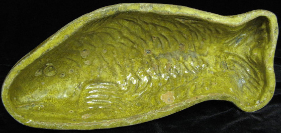 Alsatian french antik eartenwear mold